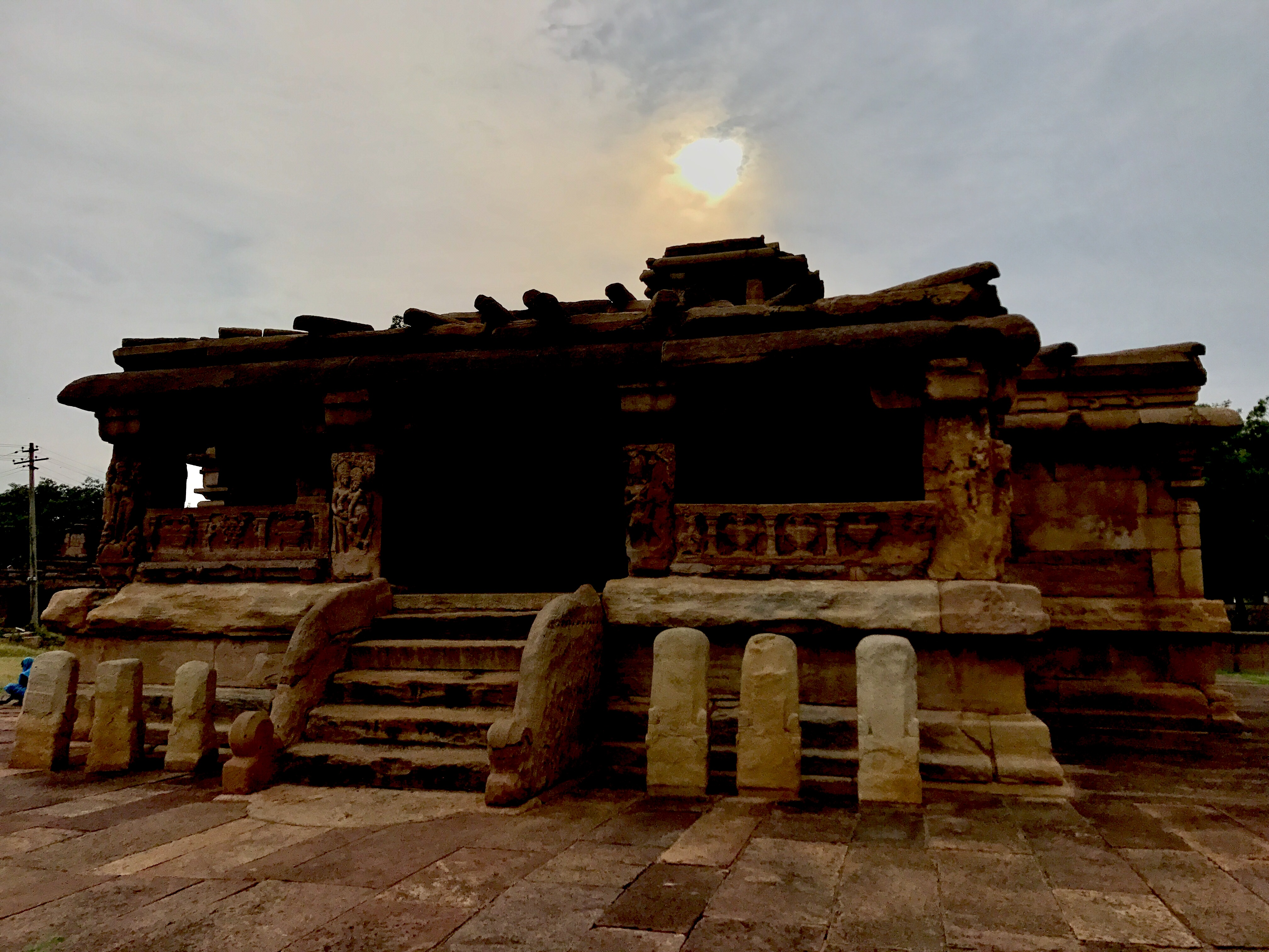 Galaganatha temple in Aihole